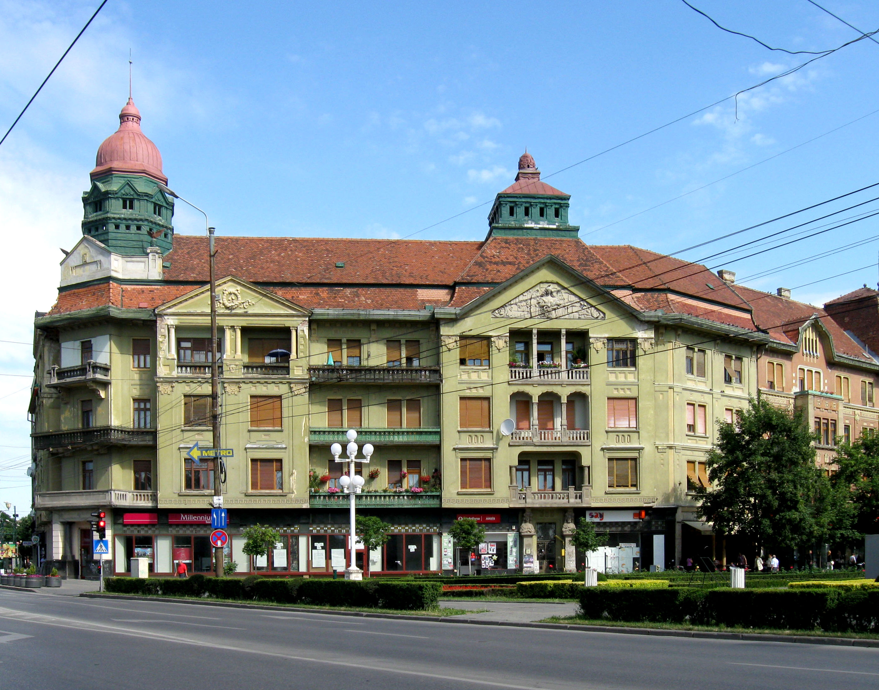 Széchényi Palace, Timisoara, Romania. Built 1911-1913, architect Székely László (1877-1934)